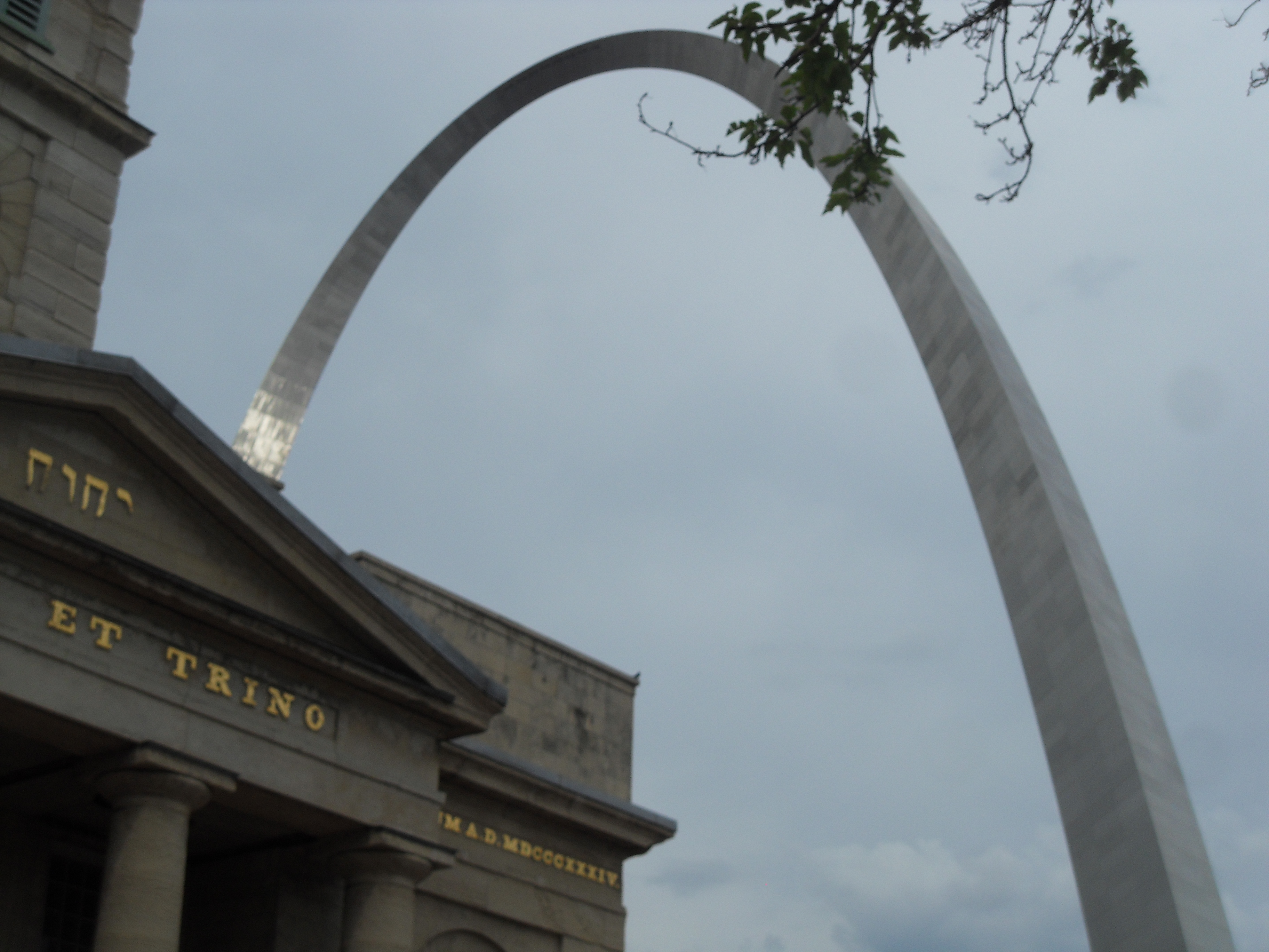 Gateway Arch and the Old Cathedral.